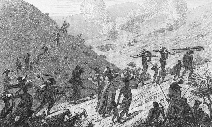 Departure of the Fingoes (1840)